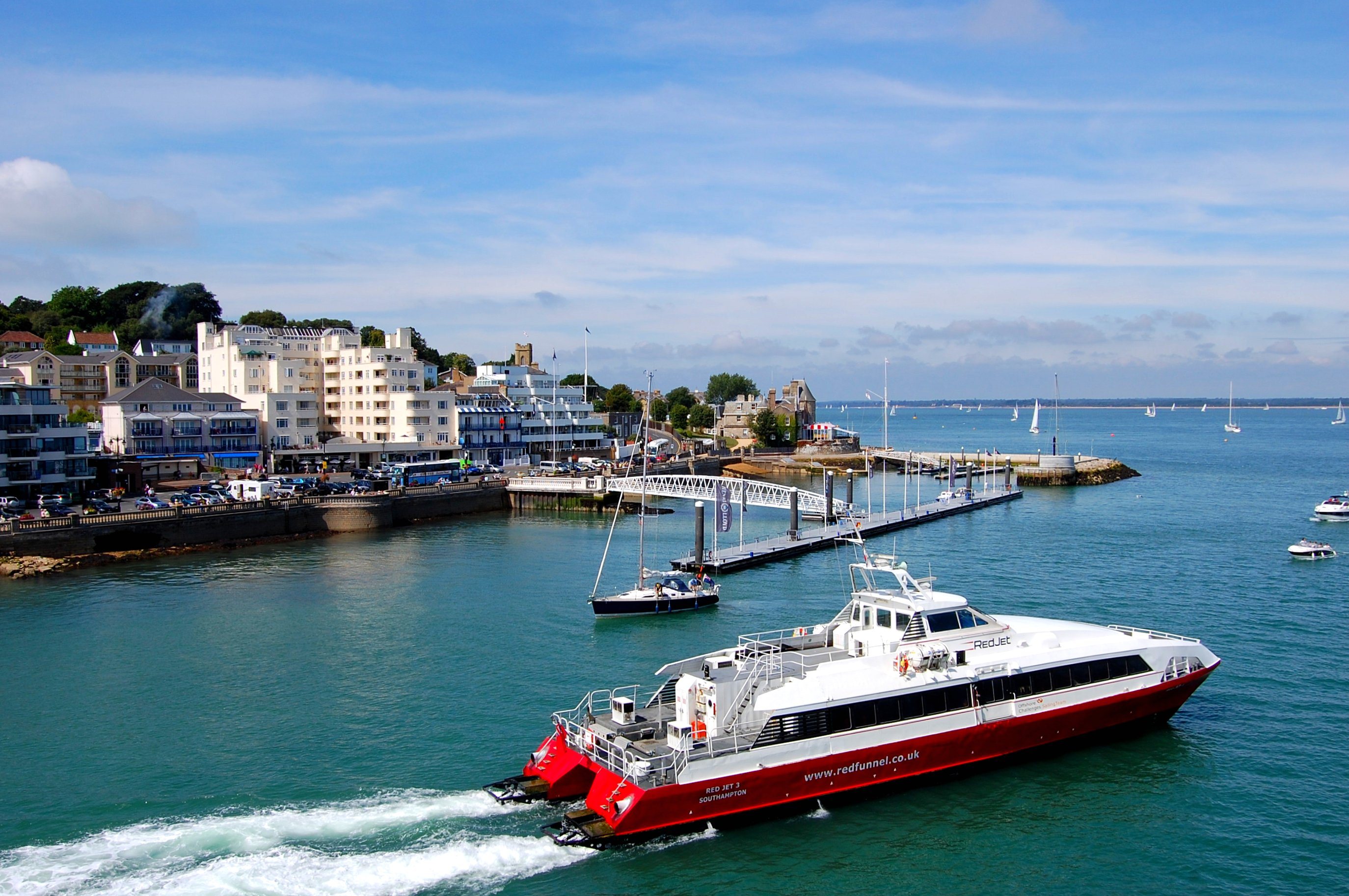 THE RED JET FERRY .COWES-SOUTHAMPTON.